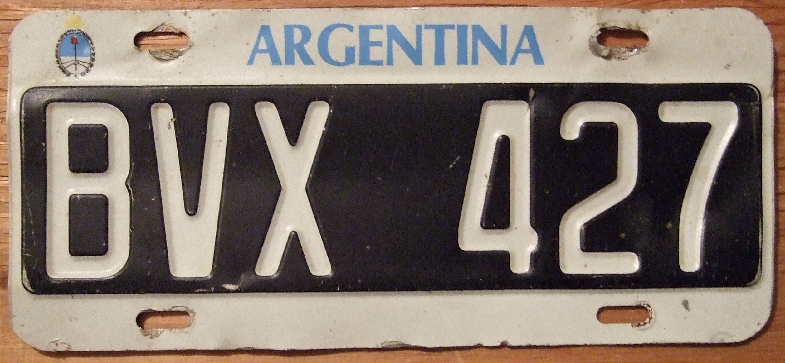 The black area of this plate is embossed with the numbers debossed. All but the black area is reflectorized.